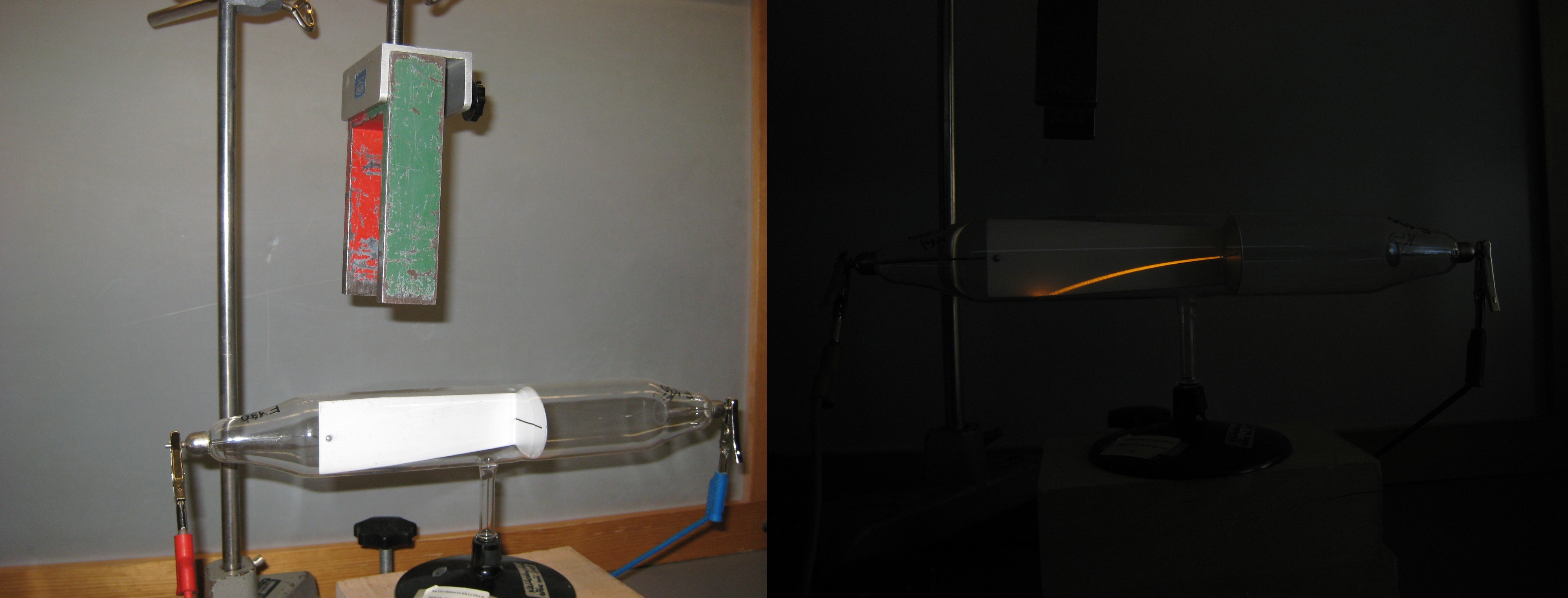 An experimental setup to show the Lorentz force Left picture: The experimental setup how it looks like. Right picture: The effect of the Lorentz force. The electron flys from the right end to the left. The magnetic force crosses the flight path and deflects the electron ray down